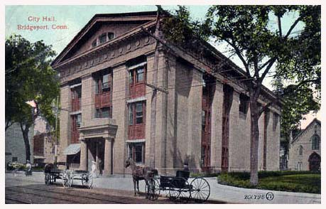 Western view of old Bridgeport City Hall (now McLevy Hall) (originally built as Fairfield County Courthouse) in Bridgeport, Connecticut.